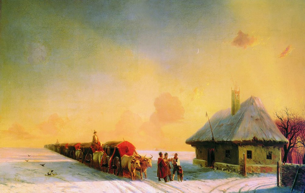 Chumaks in Little Russia